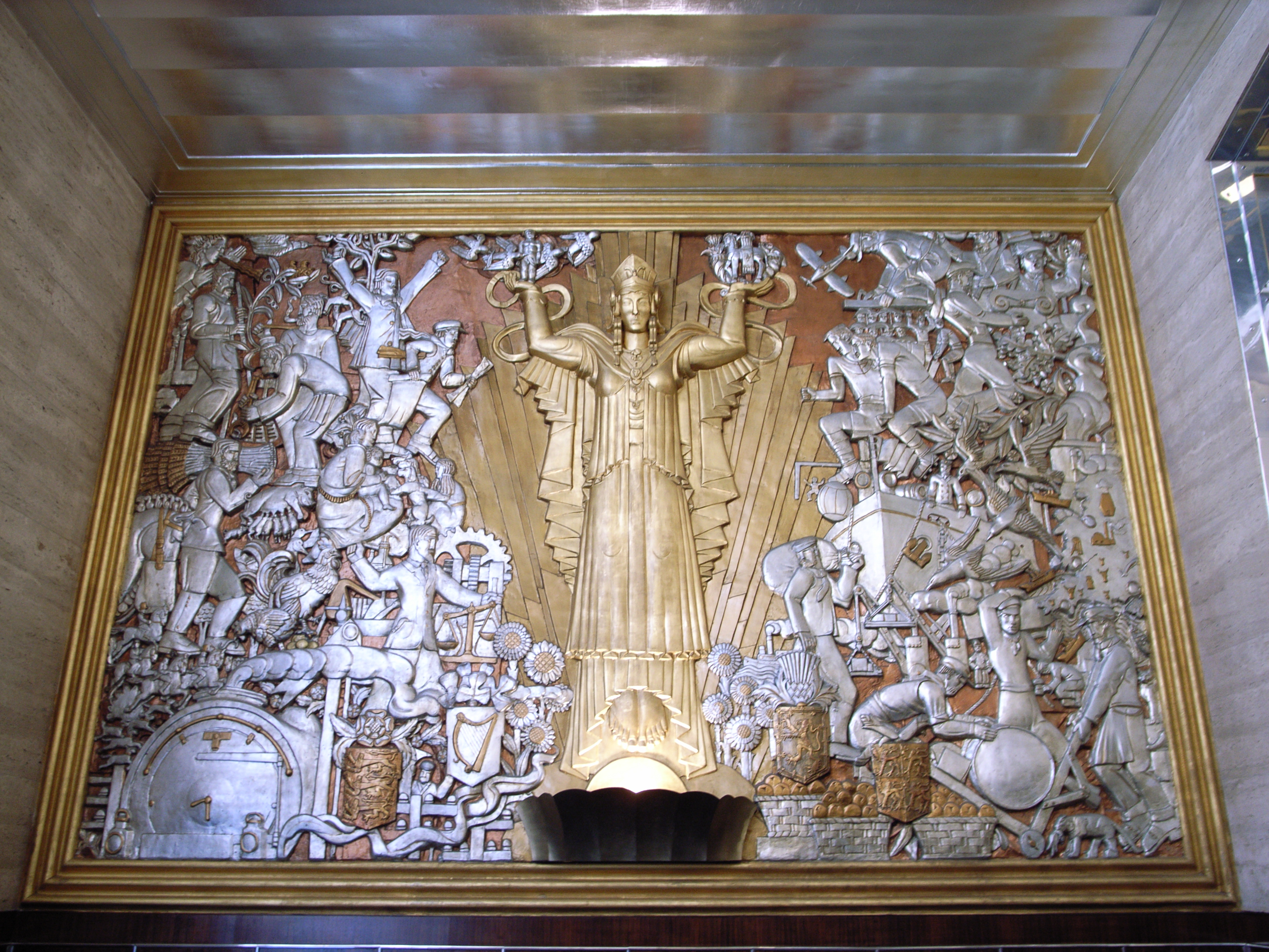 The Art Deco relief mural and statue, by Eric Aumonier. In the lobby of 120 Fleet Street—the former Daily Express Building, in London.